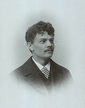 Adolph Frederik Charles Meyer (1858-1938), Danish politician, MP